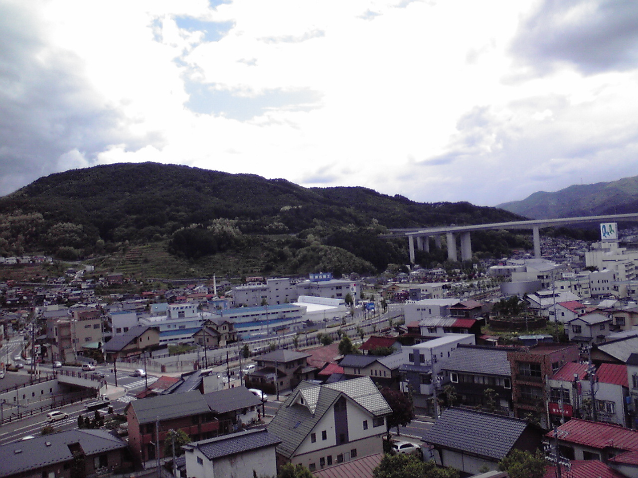 This is a photo of City of Okaya , Nagano , Japan.I took this photo from Ilf Plaza.